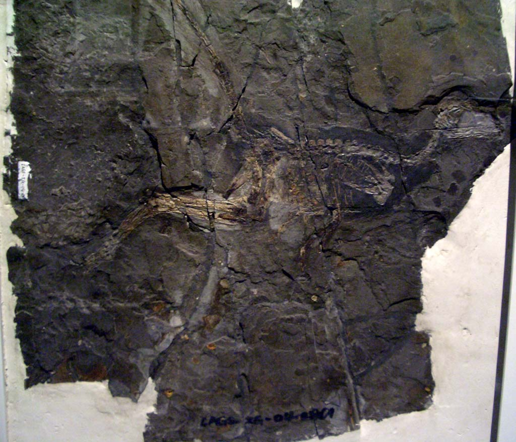 Jinfengopteryx elegans fossil displayed in Hong Kong Science Museum